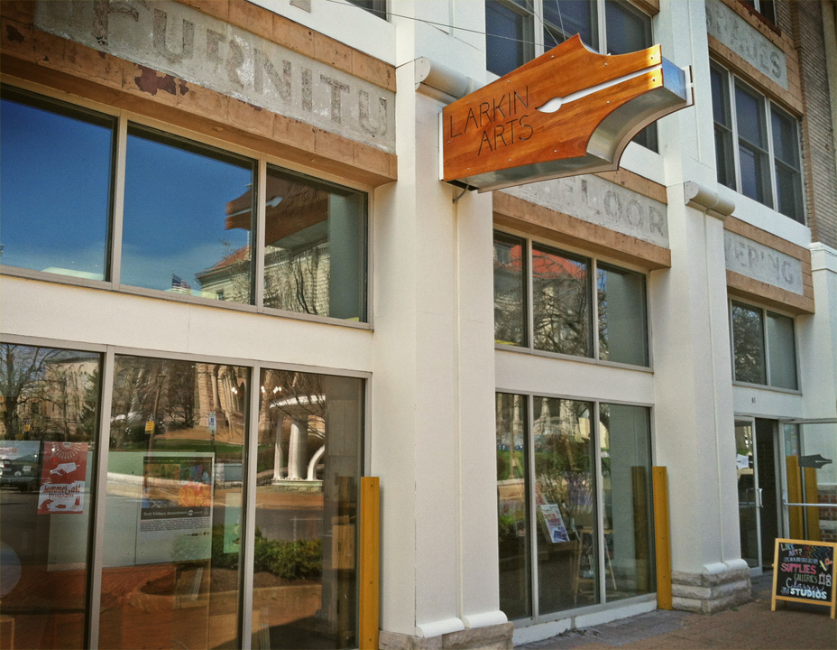 Larkin Arts, Harrisonburg VA. Shot by PTC as part of OFAR, 2014.